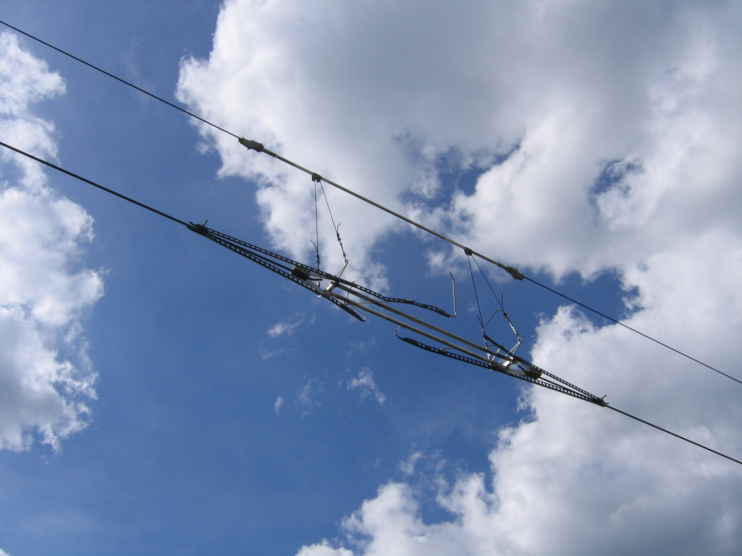 Here the overhead wire changes from AC to DC; Stadtbahn Karlsruhe, Bad Wildbad